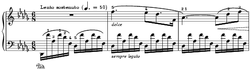 Nocturne in D-flat Major, Op. 27, No. 2